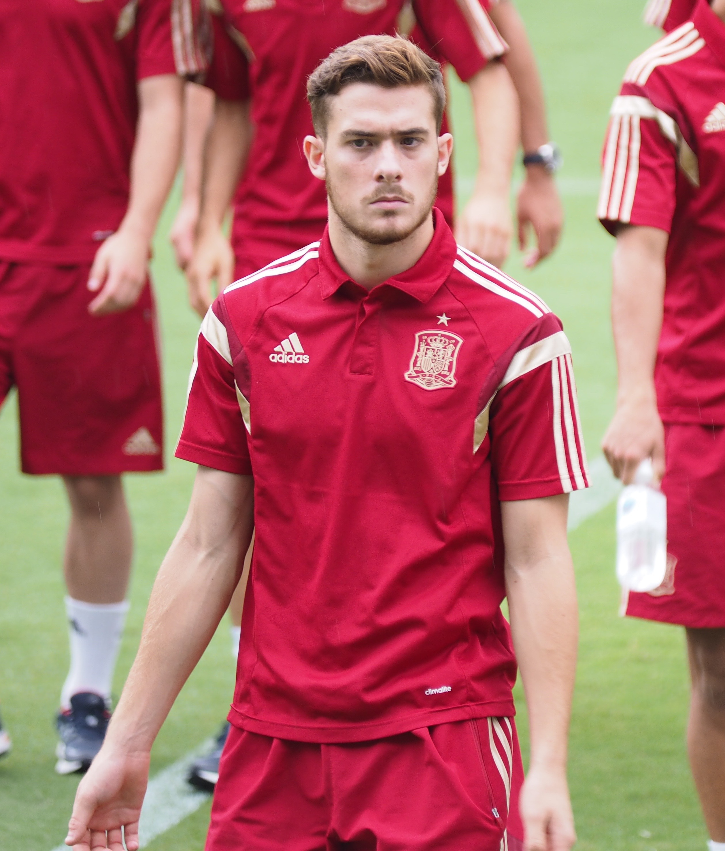 Toni Martinez at the 2015 SBS CUp